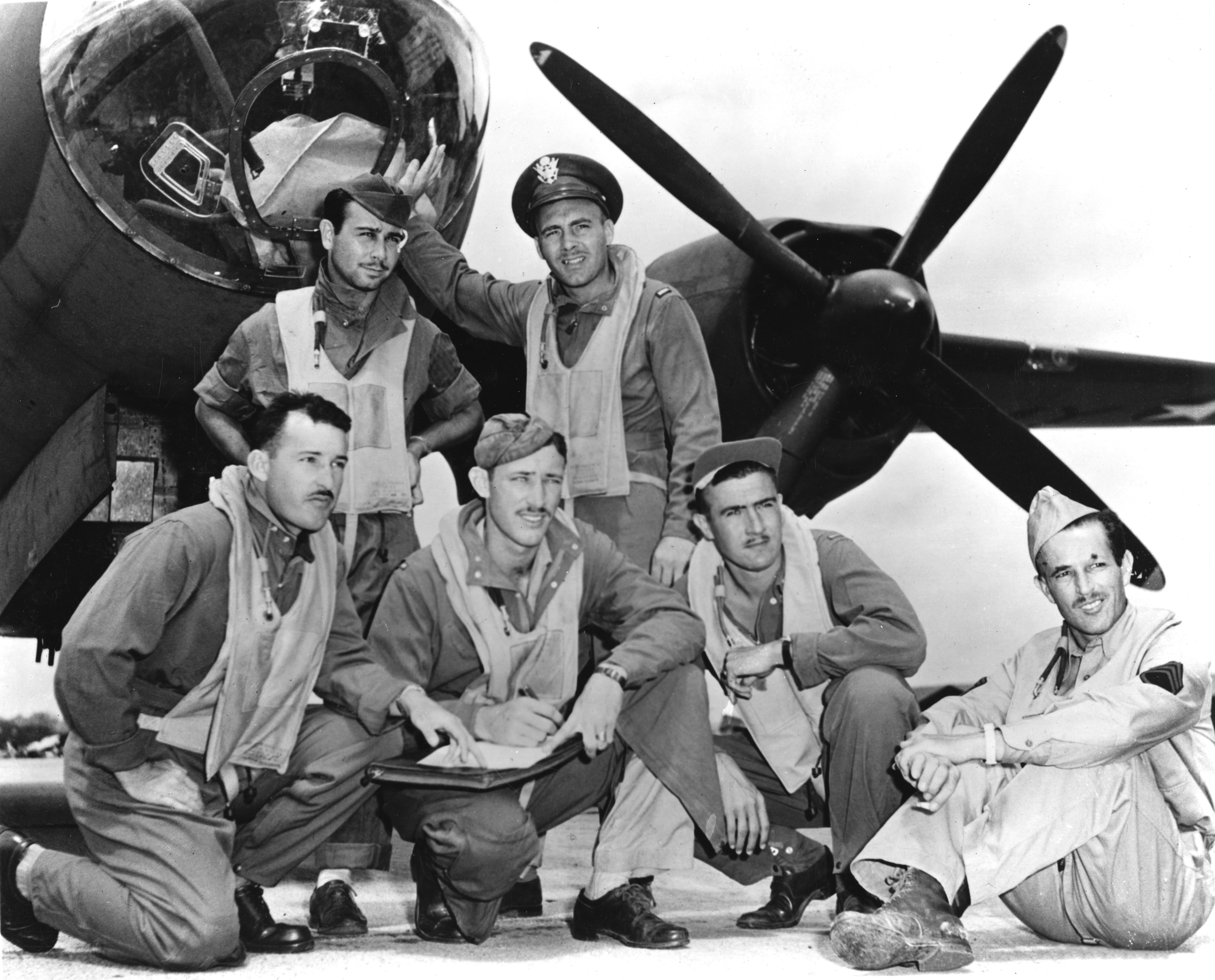 The crew or a U.S. Army Air Forces Martin B-26 Marauder (s/n 40-1391, "Susie-Q") from the 18th Reconnaissance Squadron (Medium), 22nd Bomb Group, which made torpedo-attack on the Japanese carriers in the early morning of 4 June 1942 during the Battle of Midway: Pilot Lt. James P. Muri (second from left, front row), co-pilot Lt. Pren L. Moore, navigator Lt. William W. Moore, bombardier Lt. Russell Johnson, gunners S/Sgt. John J. Gogoj, Cpl. Frank L. Melo Jr, and Pfc. Earl D. Ashley 1st. The plane had more than 500 bullet holes when it landed at Midway and was written off. The crew was allowed to cut out the nose-art "Susie-Q" before the plane was dumped at sea.